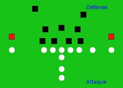 cornerbacks positions on the field (football)